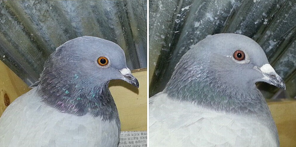 profile of rock pigeon and feral pigeon